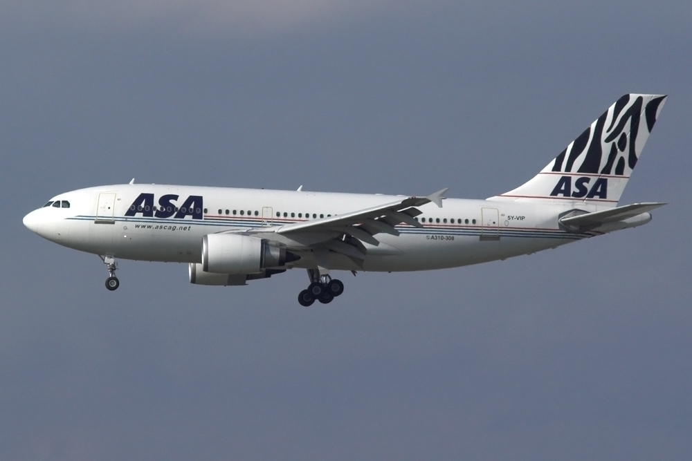 African Safari Airways A310-300 5Y-VIP